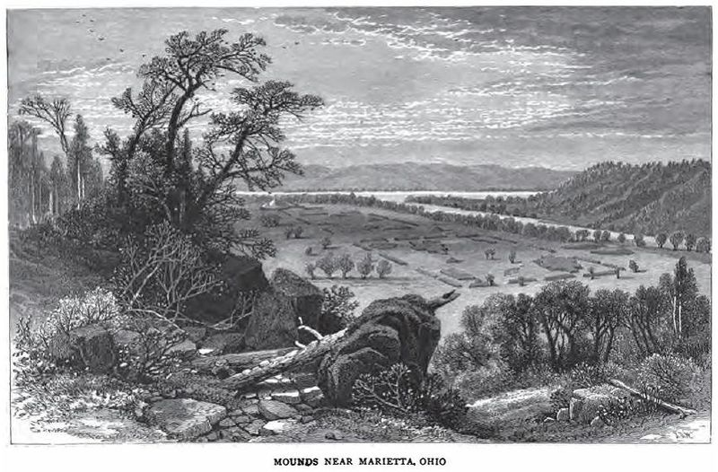 Mounds near Marietta - from page 24 of the book by William Cullen Bryant and Sydney Howard Gay entitled, A Popular History of the United States, Vol I, published in 1888. The conical Great Mound of Mound Cemetery is the upper, leftmost mound in this old drawing, located directly under a tree branch.